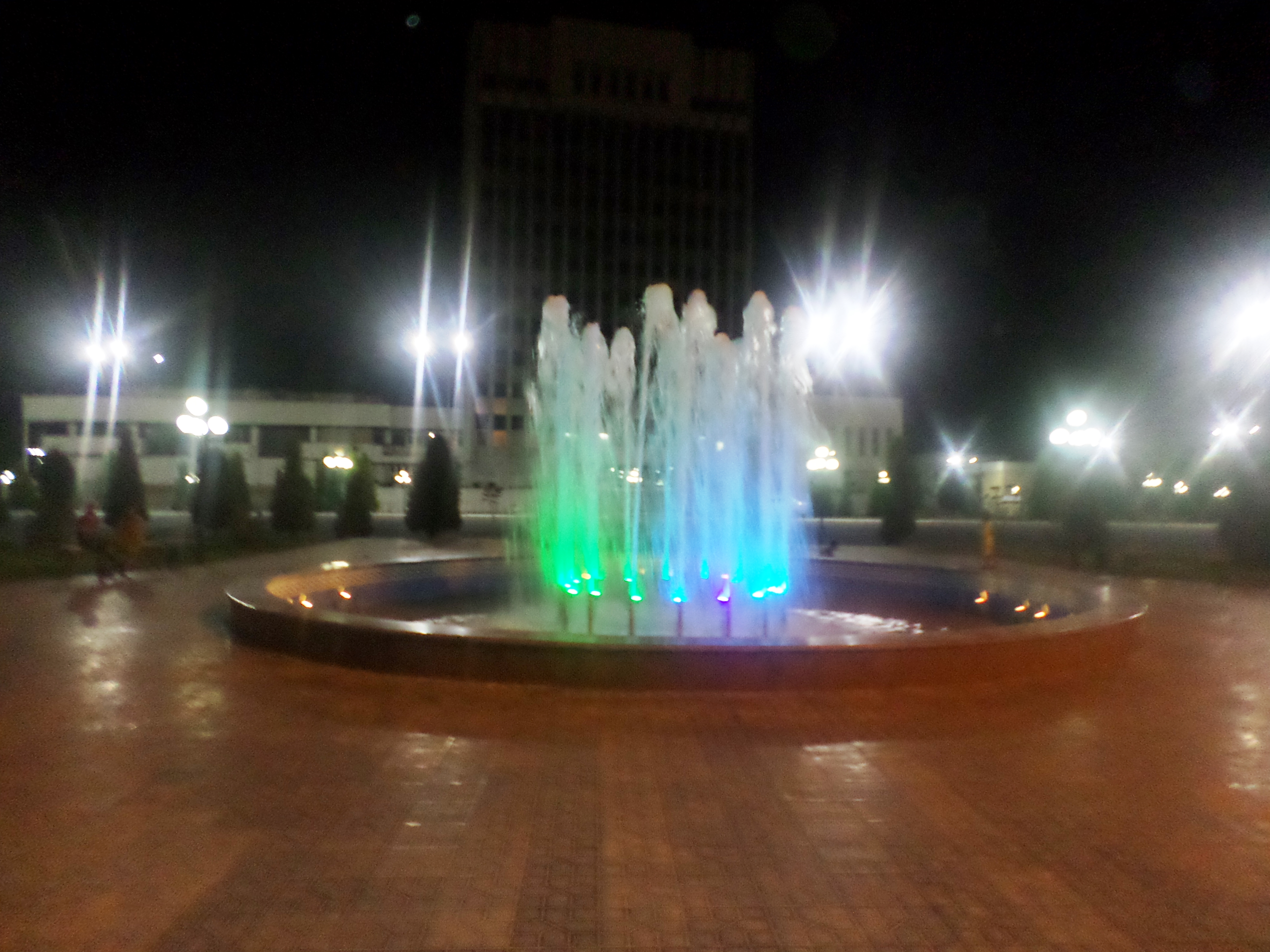 Avenues and squares of modern Samarkand